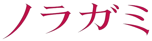 Logo of Noragami